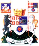 Voždovac coats of arms, Serbia